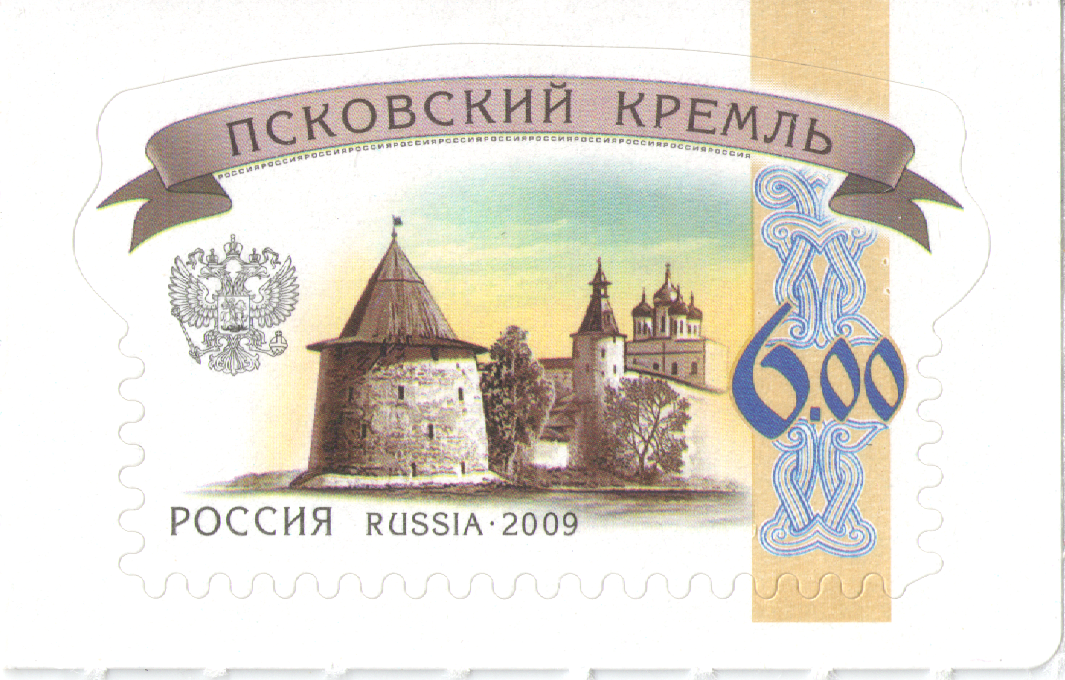 Russian postal stamp of Pskov Kremlin. Cost 6 roubles.